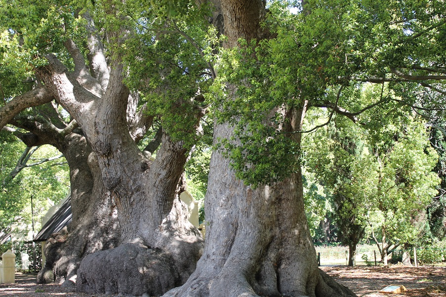 This media shows a South African Protected Site with SAHRA file reference 9/2/083/0010/001.